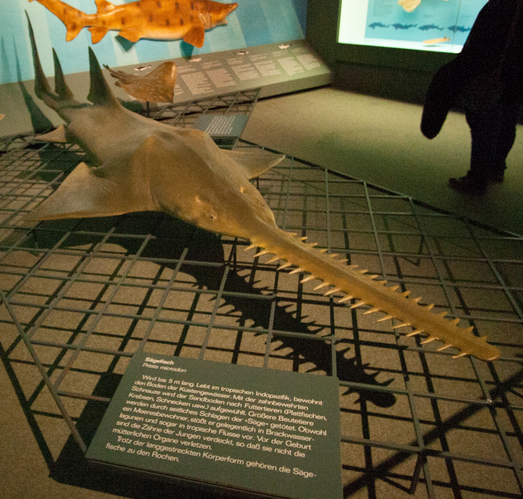 Pristis microdon